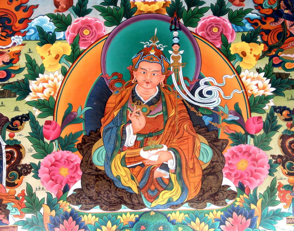 Wall painting of Namdrol-Ling Monastery